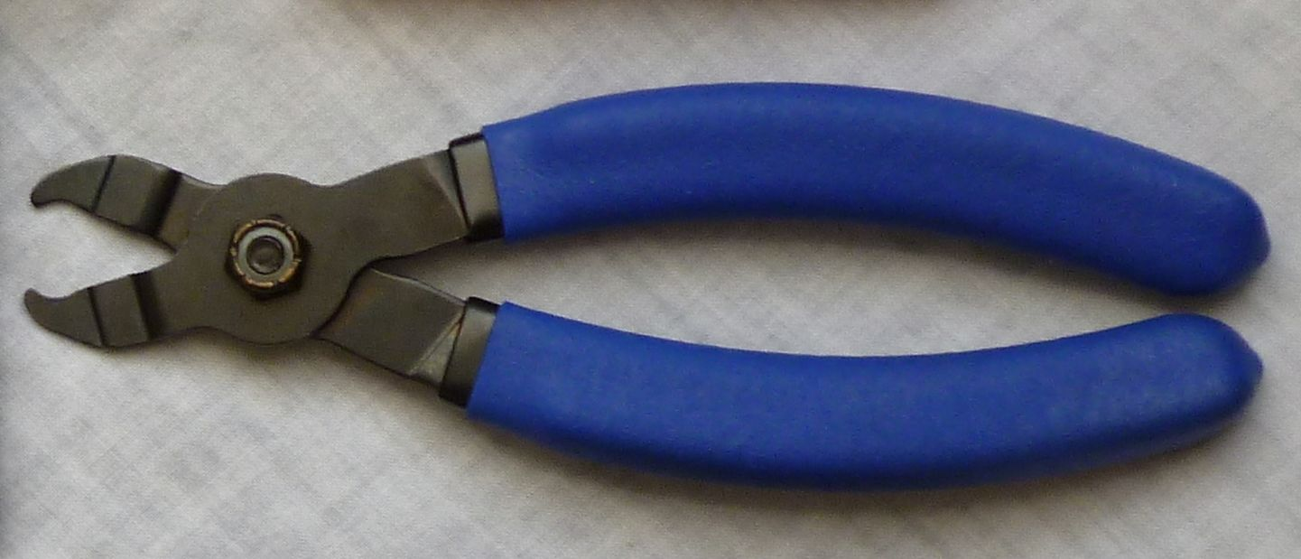 A photo of master-link pliers used in the opening of links that connect some bicycle chains.